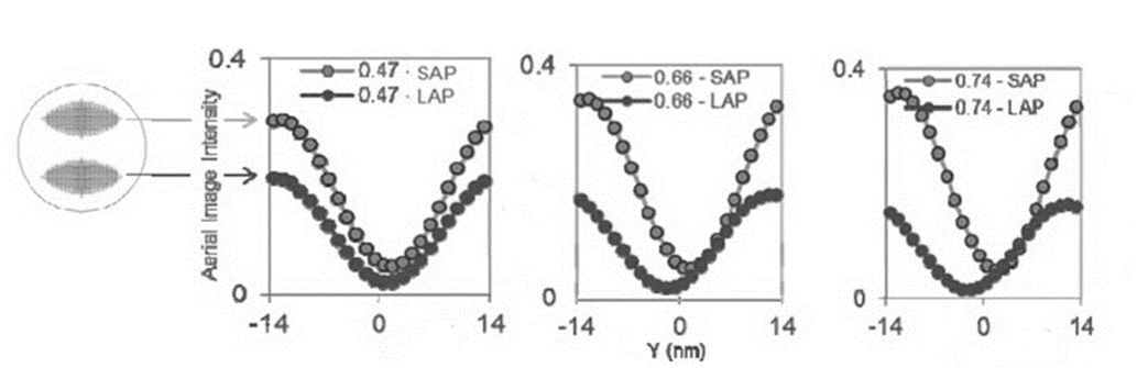 The 28 nm pitch images projected from different source points in the EUV pupil are different due to reflective asymmetry, resulting in both contrast and position differences. Left: 47% radius; center: 66% radius; right: 74% radius. Ref.: J. Finders et al., Proc. SPIE 9776, 97761P (2016).